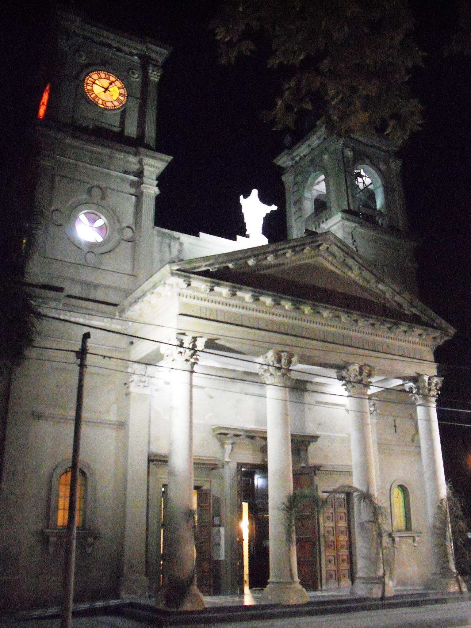 Saints Justus and Pastor Parish (Colón, Entre Ríos, Argentina)